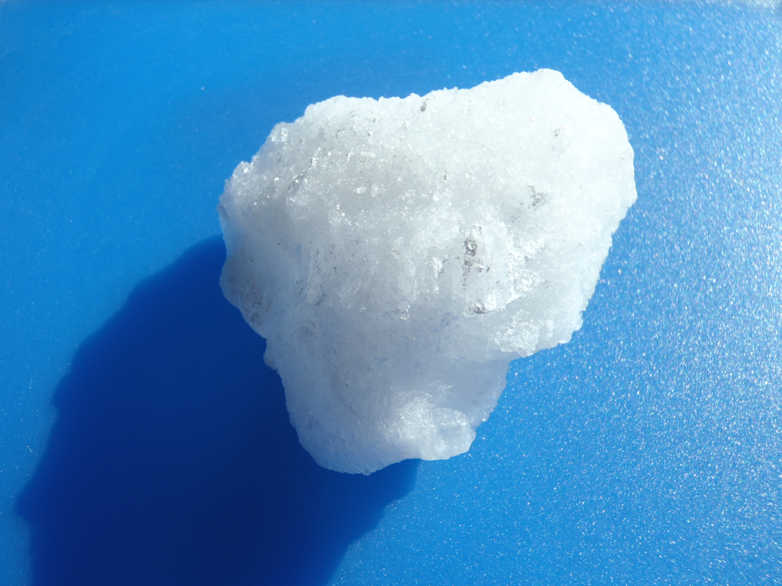 Fist size visu sample of Mirabilite.